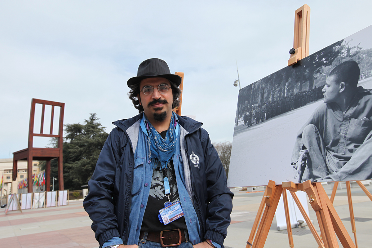 Geneve 2011